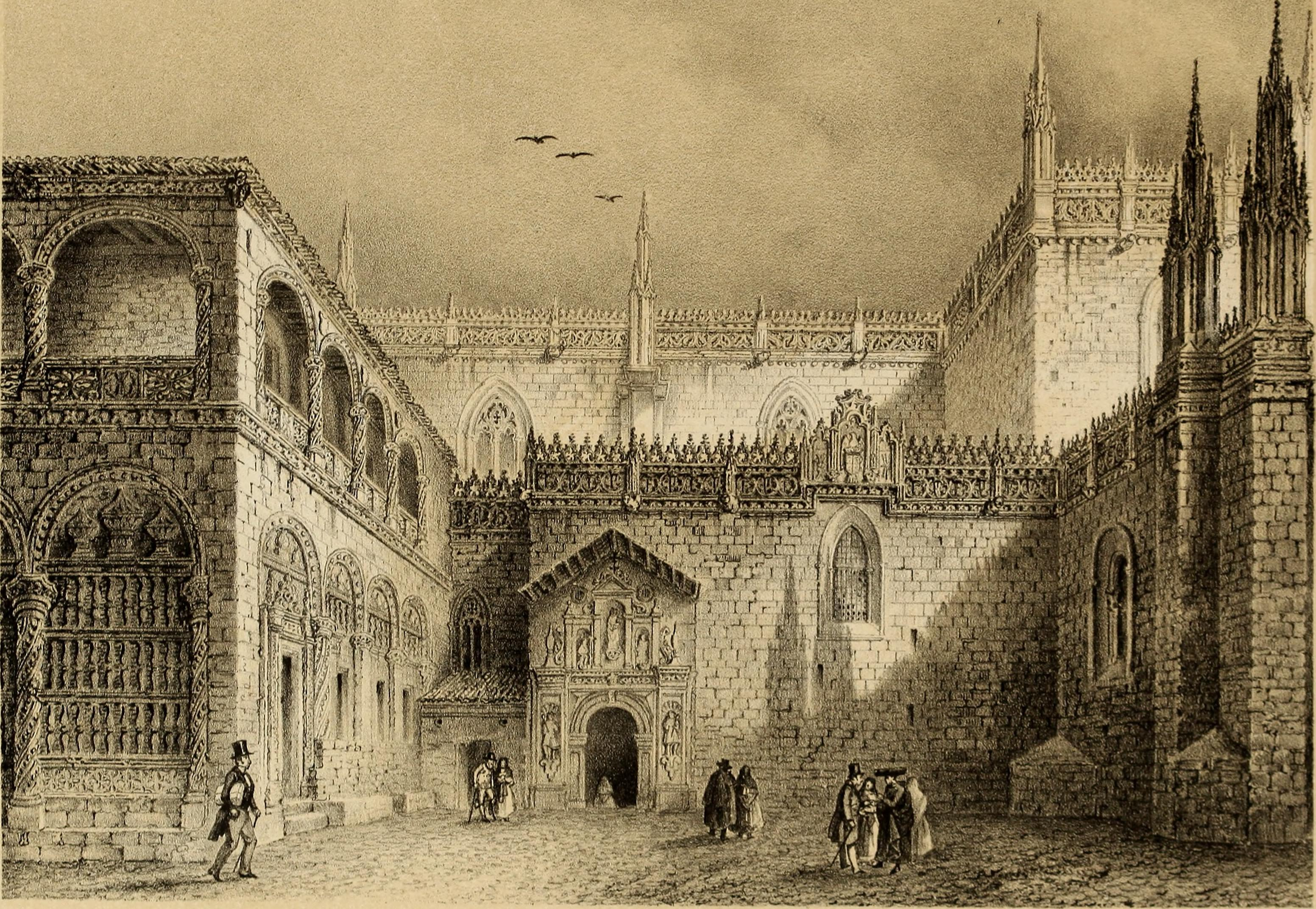 Title: Royal Chapel of Granada. Recuerdos y bellezas de España : bajo la real proteccion de ... la reina y el rey ; Obra destinada á dar á conocer sus monumentos y antiguedades en láminas dibujadas del natural y litografiadas por F.J. Parcerisa Year: 1850 (1850s) Authors: Pí y Margall, Francisco, 1824-1901 Parcerisa, F. J. (Francisco Javier), illustrator Subjects: Alhambra (Granada, Spain) Architecture Publisher: (Madrid : Repullés) Text Appearing Before Image: ' Text Appearing After Image: ( 405 )blamenlo en cuyo friso está entallado entre algunos querubines unescudo sostenido por un águila; sobre el entablamento, tres orna-cinas, en una de las cuales figura la Reina de los Cielos; sobre lasornacinas el remate general del monumento, compuesto de peque-ños círculos calados que llevan como suspendidas en el centro la ci-fra ya de Isabel, ya de Fernando. Alzase entre cada cuatro rosasuna aguja de crestería, á que corresponde en la parte inferior unapequeña gárgola; entre dos de estas agujas, un cuadro en que cam-pean las armas de Aragón y de Castilla entre una coyunda y un hazde flechas; allá á la derecha sobre tres estribos, otros tantos gru-pos de pilares cincelados que asoman como penachos de piedra so-bre los ya sombríos y abrasados muros. Distínguense detras de es-tas paredes otras mas altas coronadas también de una barandilla ca-lada; y como para mayor efecto del conjunto, desarrolla á la izquier-da una fachada gótico-plateresca sus columnas en forma